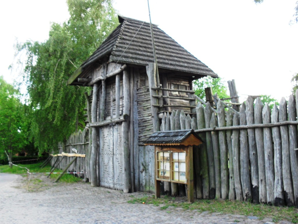 Entrance to the Slavic Village Passentin, built as an authentic medieval place of learning and experience (Idea, concept planning and oversee the construction: Dorothee Raetsch)